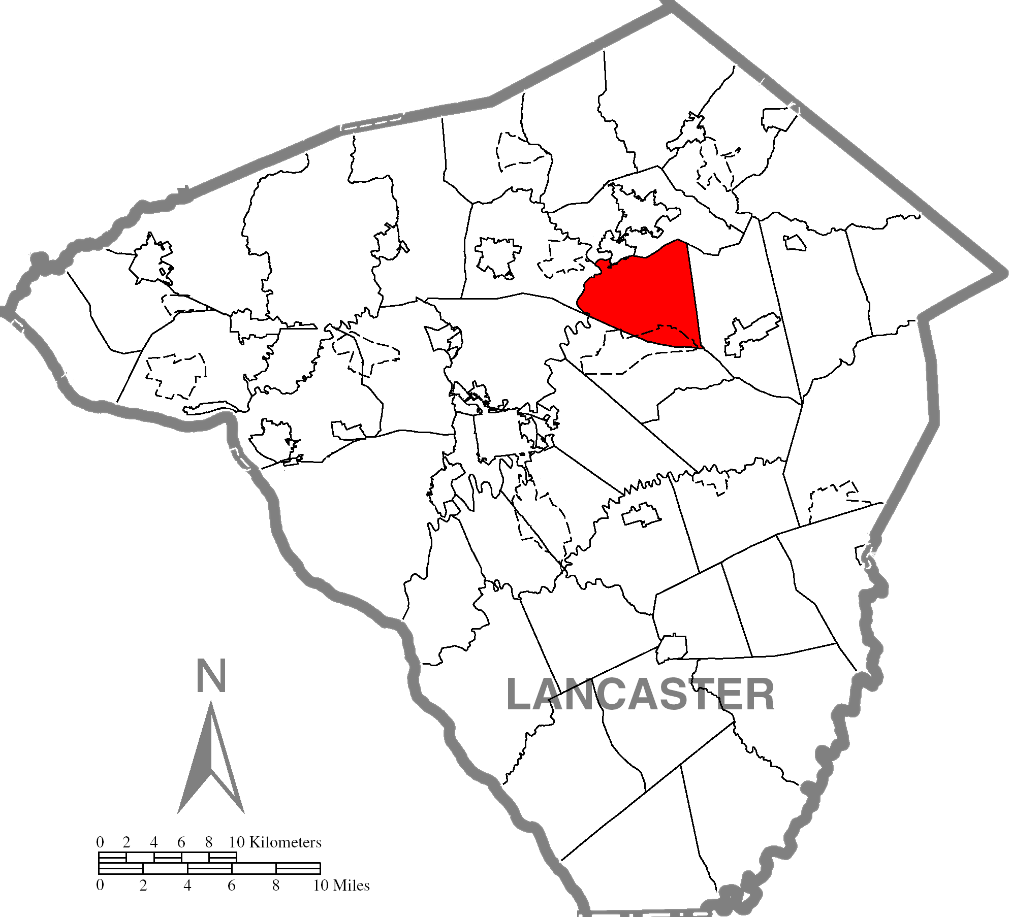 Highlighted Lancaster County map of West Earl Township.